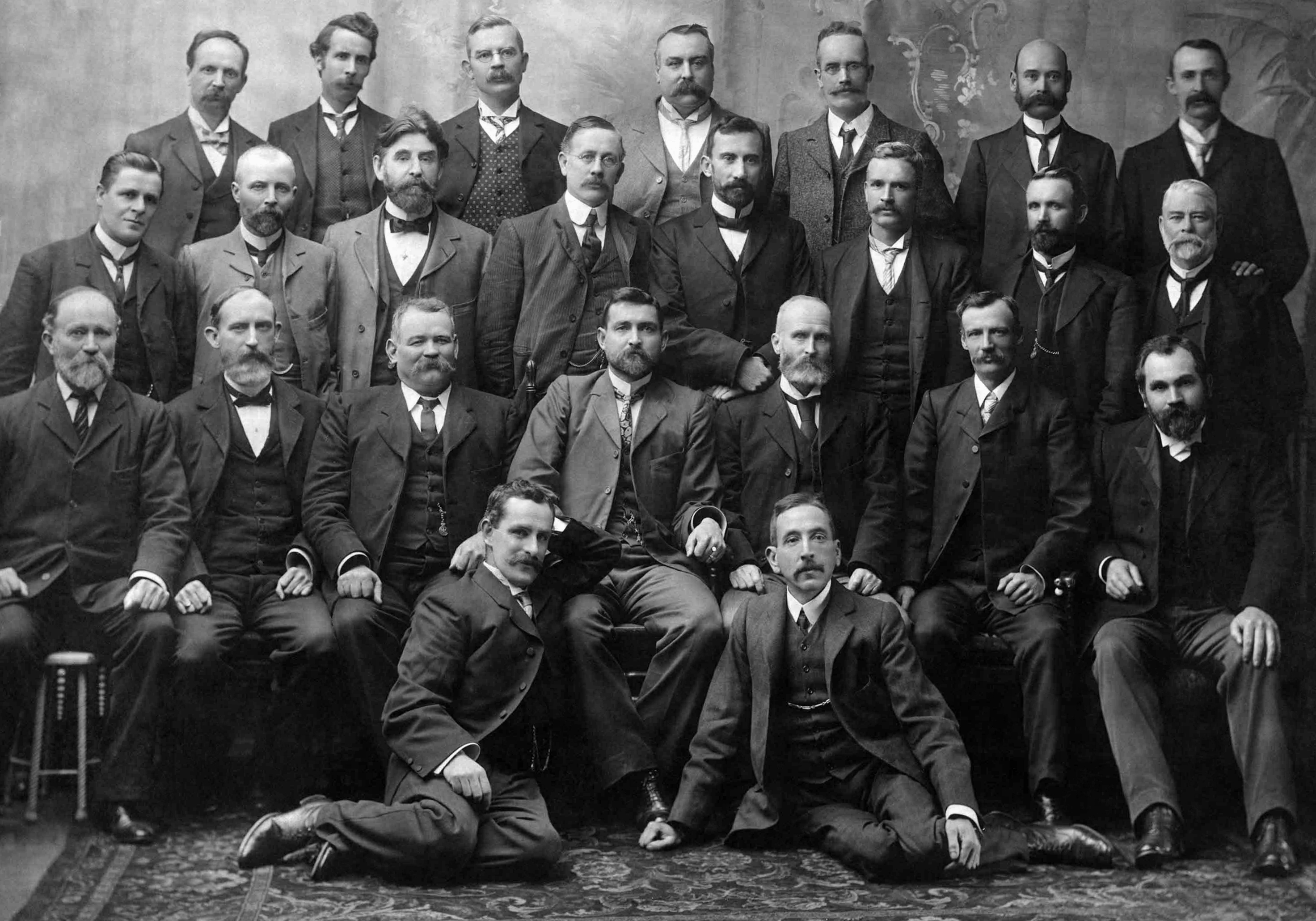 Group photograph of Federal Labour Party MPs elected to the Australian House of Representatives and Australian Senate at the inaugural 1901 election, including Chris Watson, Andrew Fisher, Billy Hughes, Frank Tudor, King O'Malley and Lee Batchelor. From left to right: Back Row - Charles McDonald, G Pearce, Josiah Thomas, James Page, James Fowler, J Barrett, D O'Keefe. Middle row - David Watkins, Thomas Brown, King O'Malley, Hugh Mahon, William Higgs, Andrew Fisher, Senator Hugh de Largie, Frederick Bamford. Front row - William Spence, A Dawson, Gregor McGregor, Chris Watson, J Stewart, Lee Batchelor, J Ronald. Kneeling - Frank Tudor, Billy Hughes.